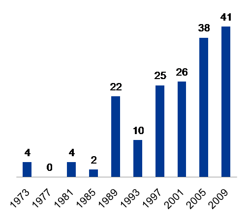 Seats of the Norwegian Progress Party since 1973.